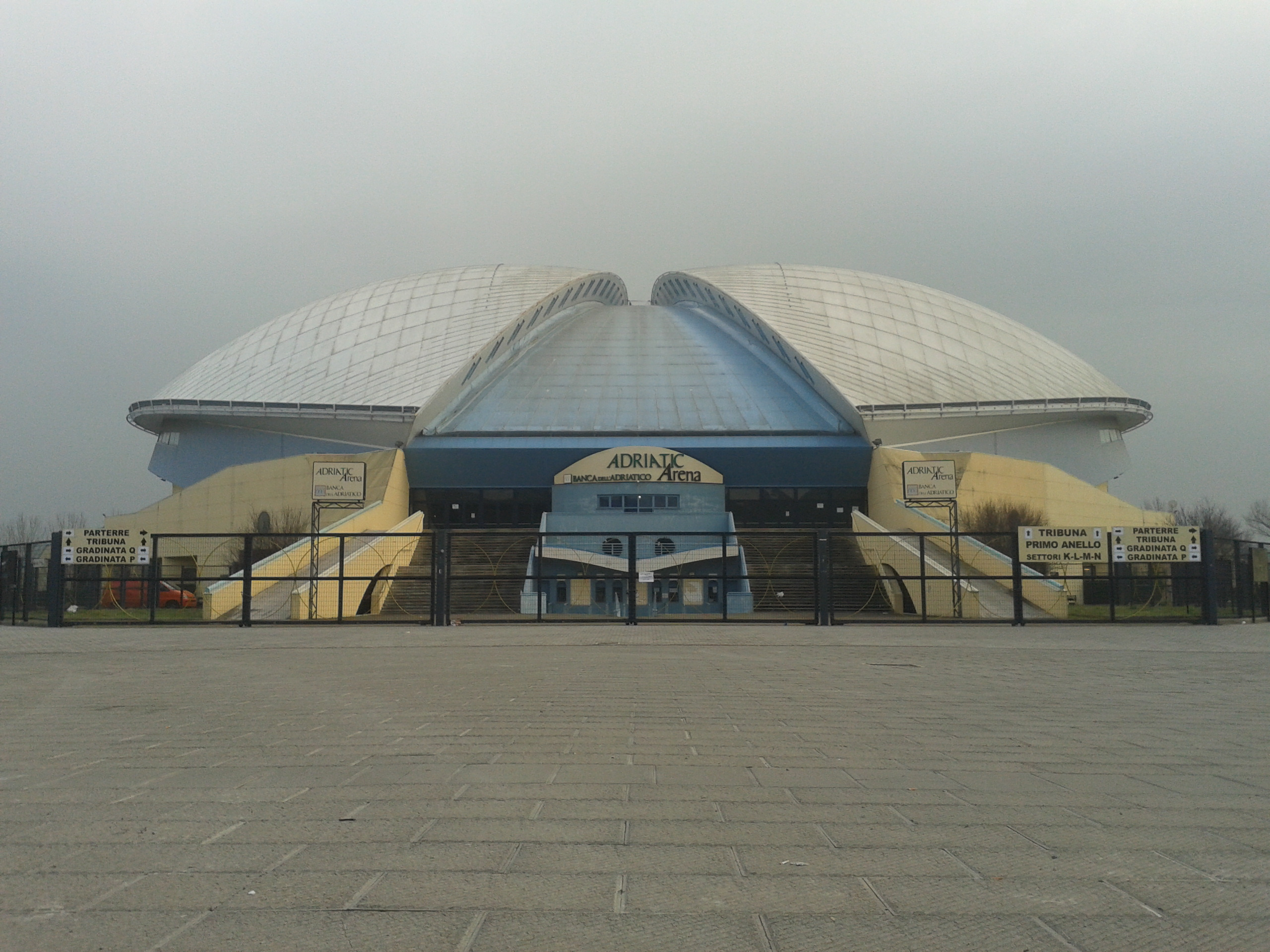 L'astronave pesarese vista da fuori.